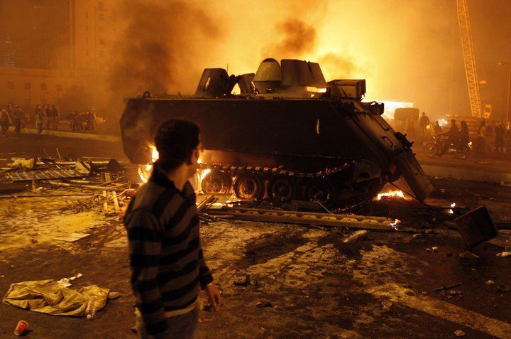 Damaged Army tank by protesters in Cairo, Februar 2011.